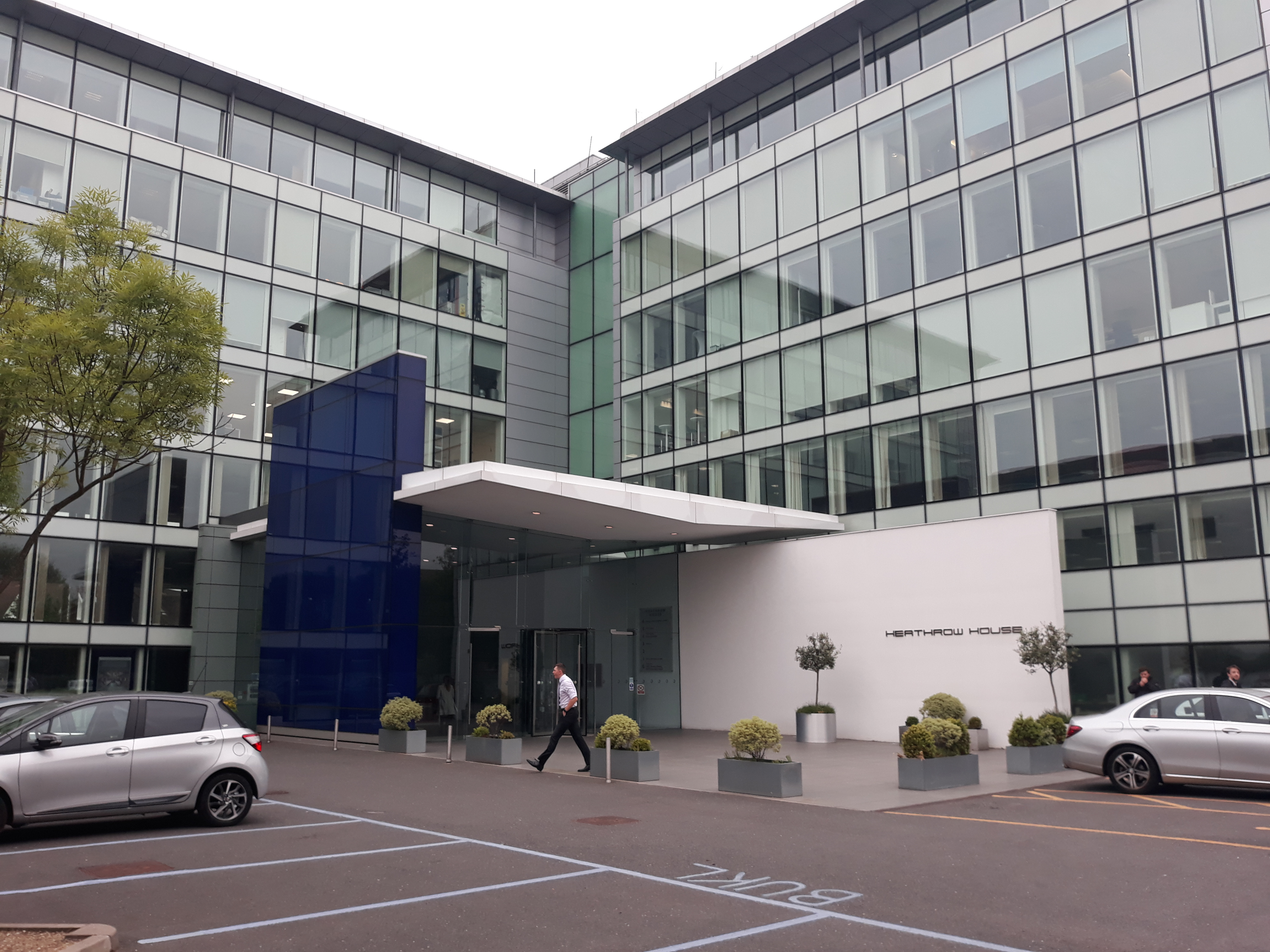 Headquarters of several companies, including Boeing United Kingdom Ltd